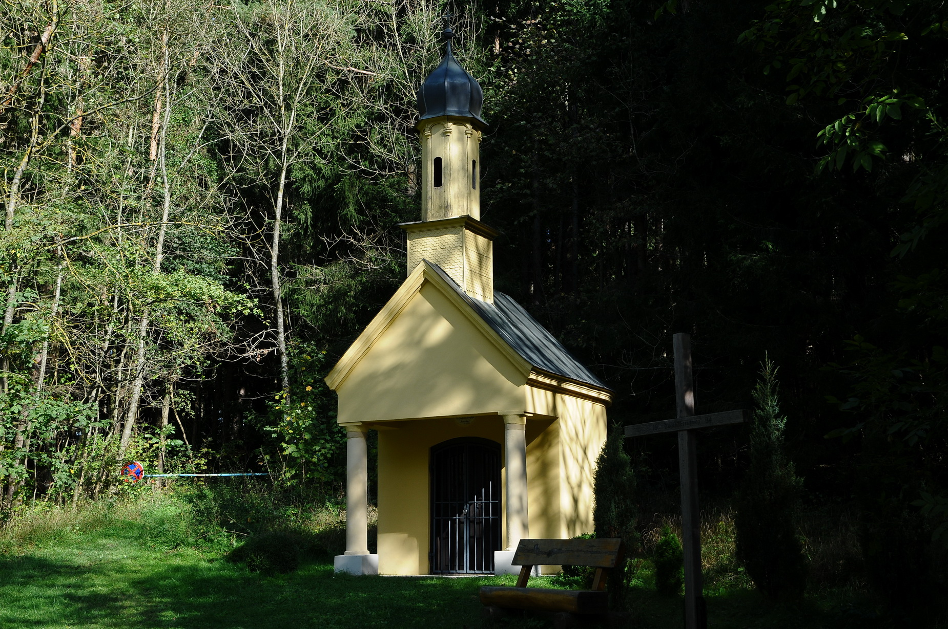 This is a photograph of an architectural monument.